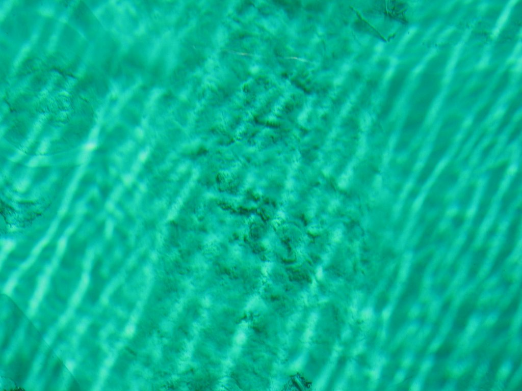 Sand bubbling up at Kitch-iti-kipi spring